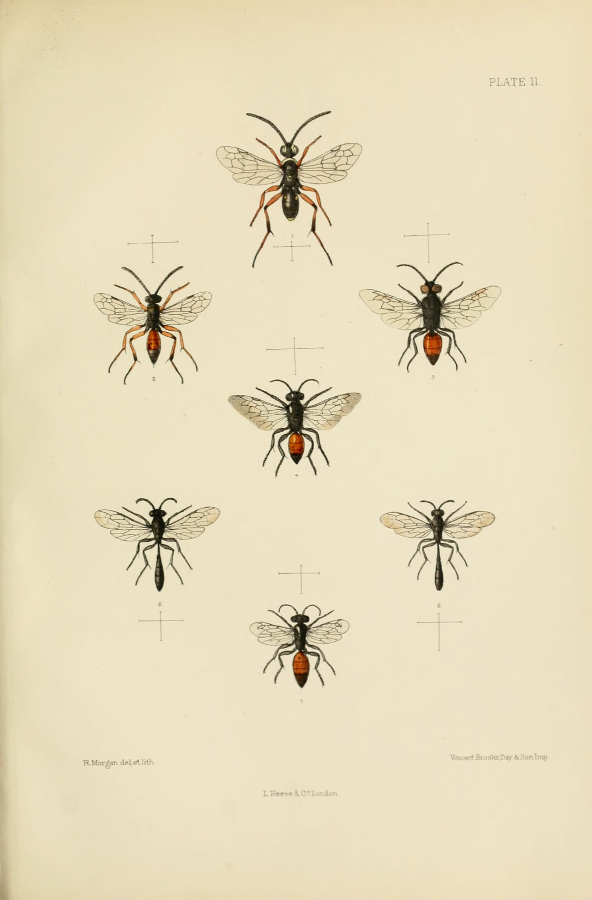 Edward Saunders, 1896 The Hymenoptera Aculeata of the British Islands : a descriptive account of the families, genera, and species indigenous to Great Britain and Ireland, with notes as to habits, localities, habitats London :Reeve,1896.Plate 11 1 Ceropales maculatus Fab = Ceropales maculata (Fabricius, 1775) female 2 Ceropales variegatus Fab = Ceropales variegata (Fabricius, 1798) female 3 Astata boops Schr = Astata boops (Schrank, 1781) male 4 Astata boops Schr female 5 Trypoxylon figulus Linn = Trypoxylon figulus (Linnaeus, 1758) female 6 Trypoxylon attenuatum Sm = Trypoxylon attenuatum Smith, 1851 female 7 Tachytes pectinipes Linn = Larra pompiliformis Panzer, 1805 female Plate text